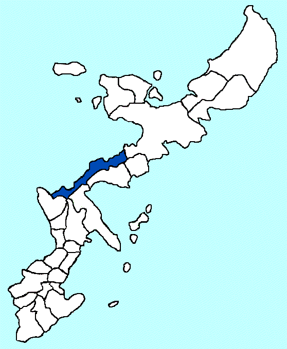 The location of Onna Village in Okinawa.